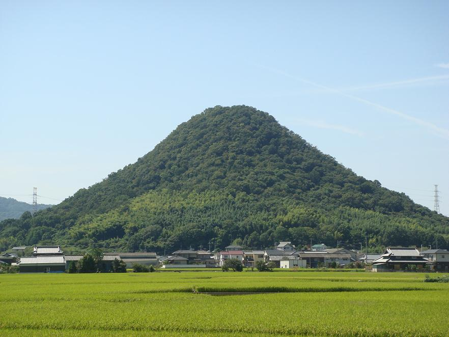 tsutsumayama JAPAN